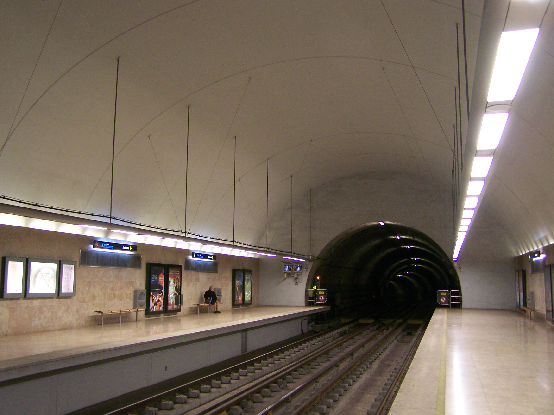 southern part of the platforms of Ameixoeira metro station (Yellow Line) in Lisbon, Portugal